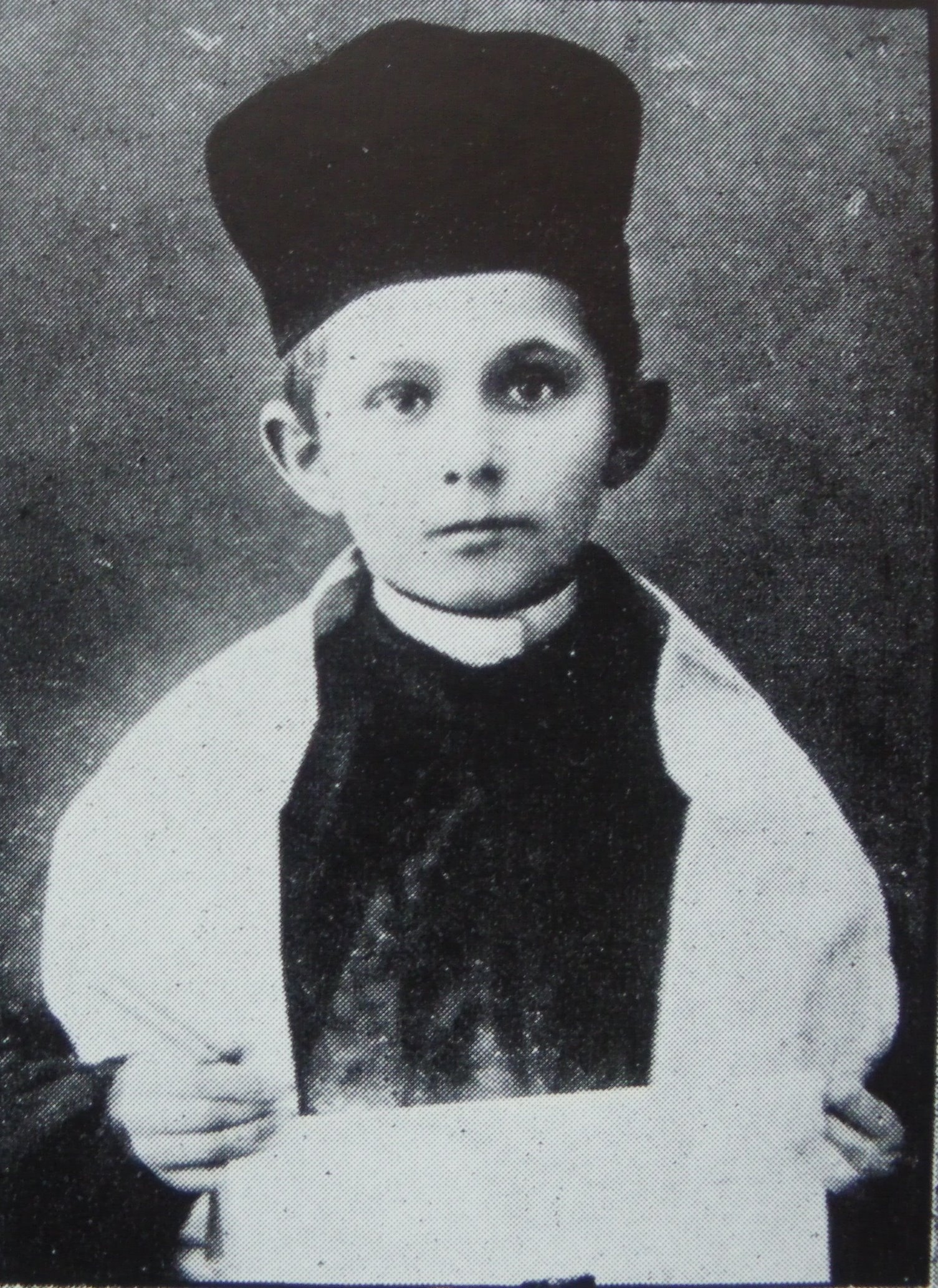 Songwriter Sholom Secunda as a "vunderkind" khazn